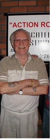 This is my own personal photograph and can be released for public domain.